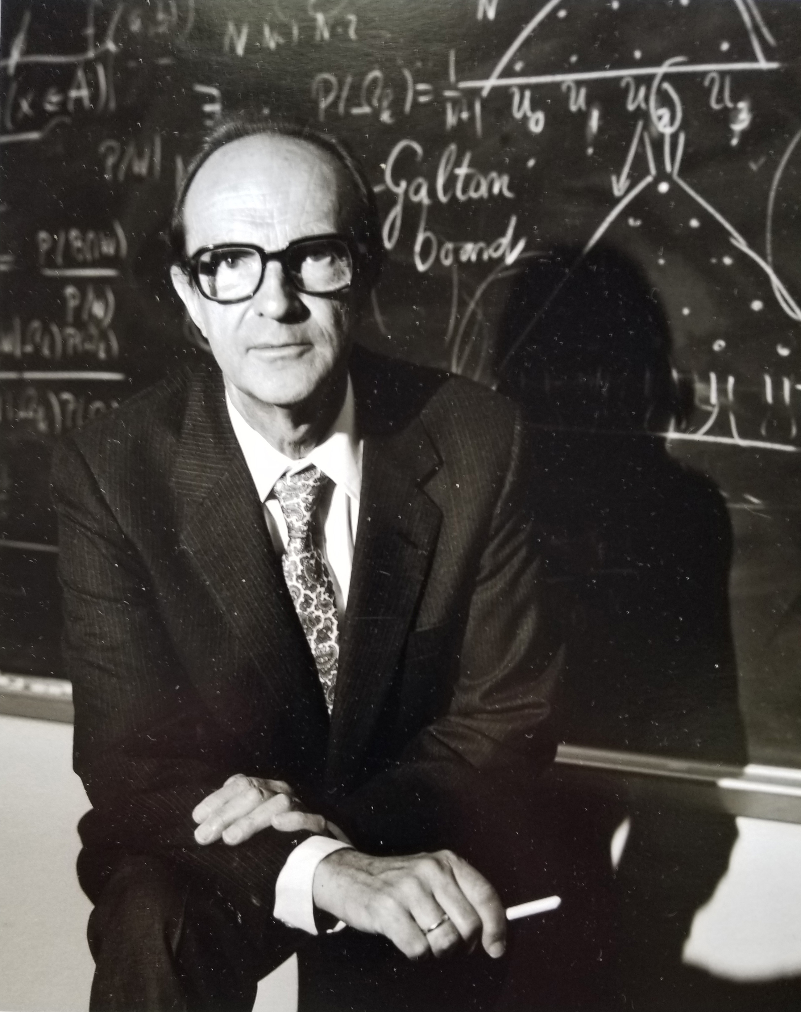 Image taken by his son in the late 1980's